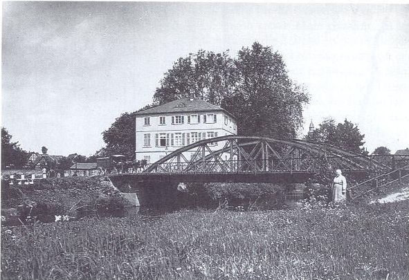 Praunheimer bridge in Frankfurt am Main / Praunheim 1900 Graebe with house in background